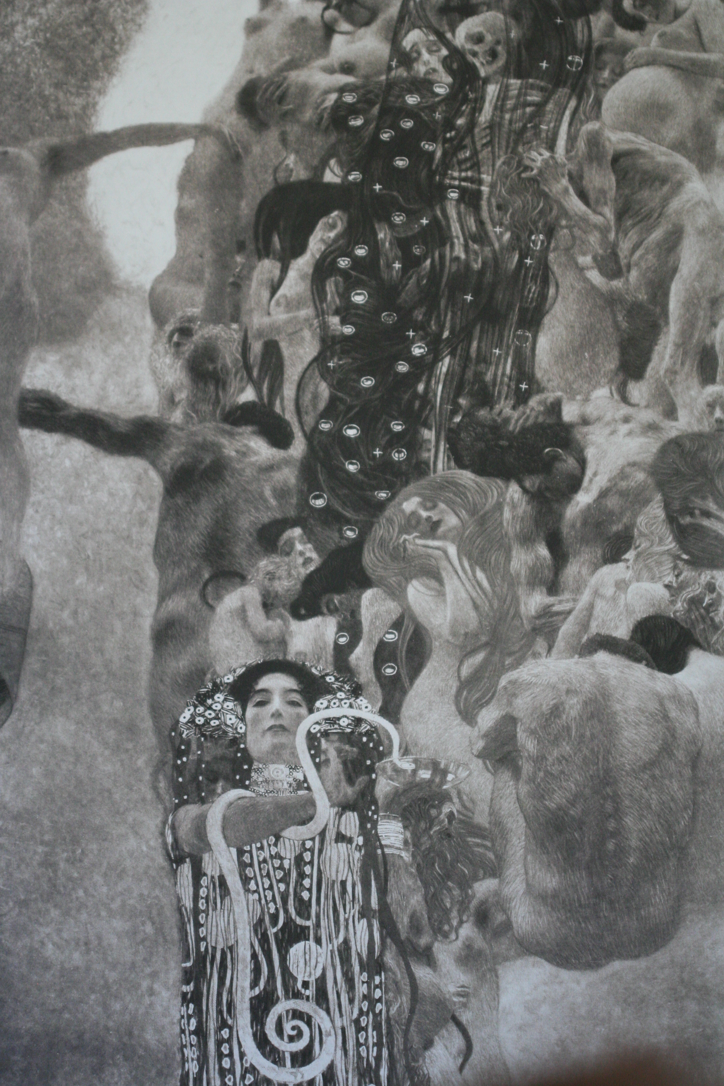 painting "Medicine" in a Black&White-reproduction